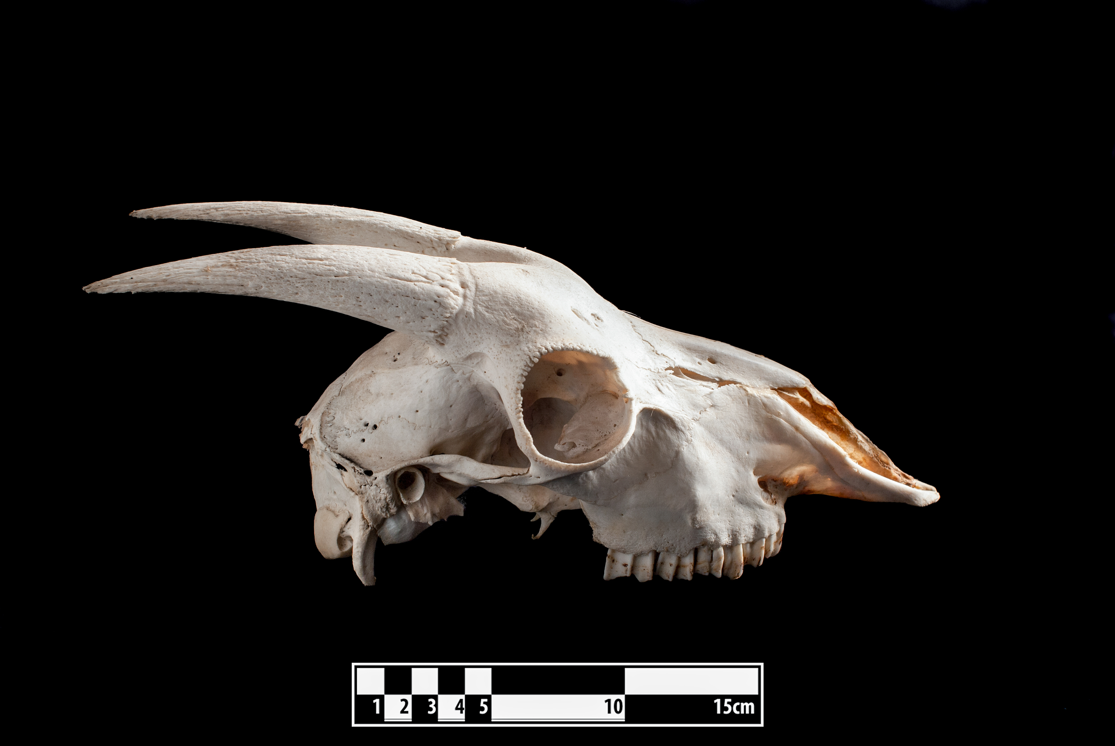 Goat skull. Capra aegagrus hircus Specimen of goat skull prepared by the bone maceration technique and on display at the Museum of Veterinary Anatomy FMVZ USP. This file was published as the result of a partnership between the Museum of Veterinary Anatomy FMVZ USP, the RIDC NeuroMat and the Wikimedia Community User Group Brasil. This GLAM project is reported. Photography: Museum of Veterinary Anatomy FMVZ USP. Author: Wagner Souza e Silva.